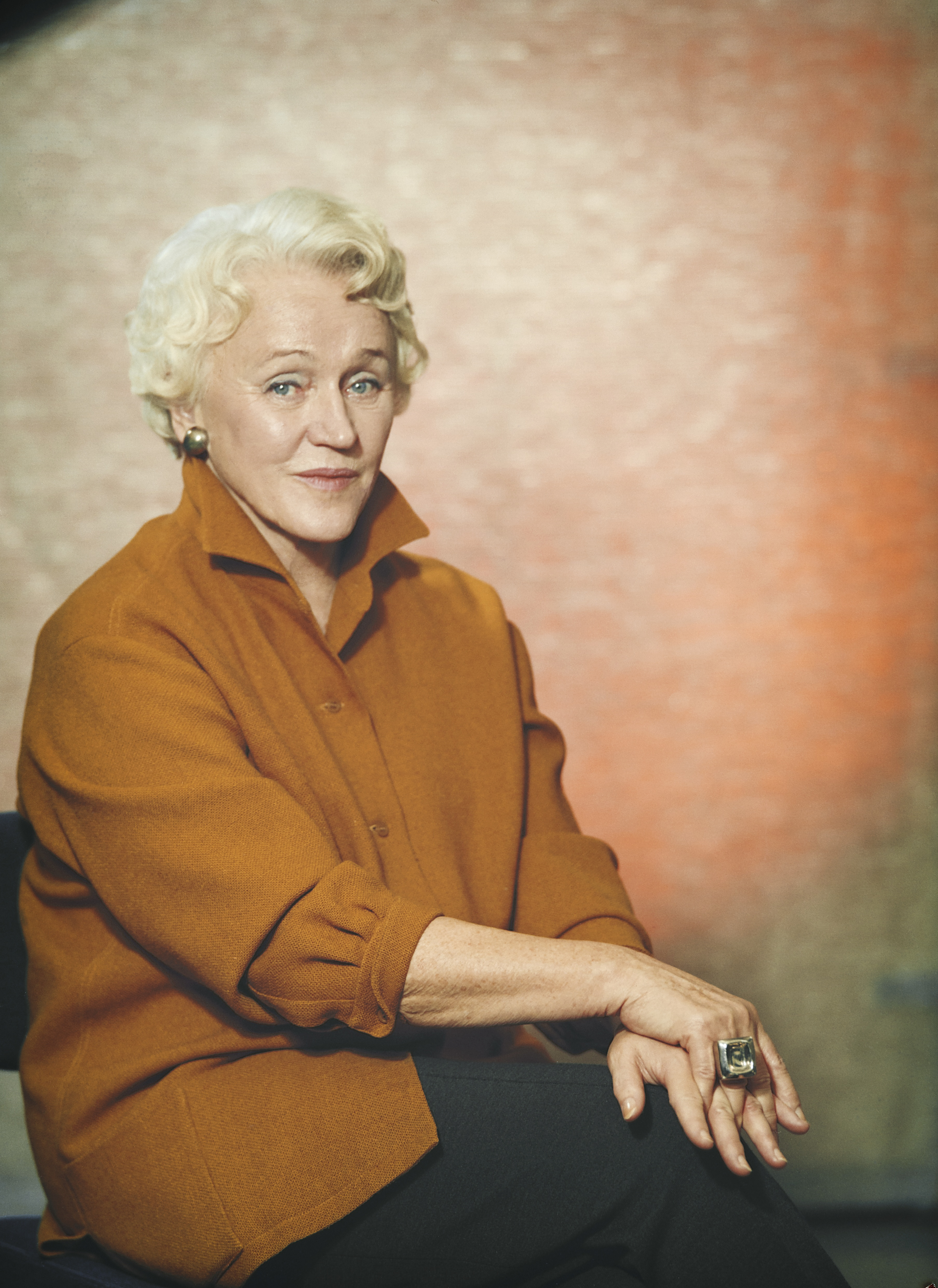 Photograph of the Finnish writer Anelma Vuorio (1906–1983).